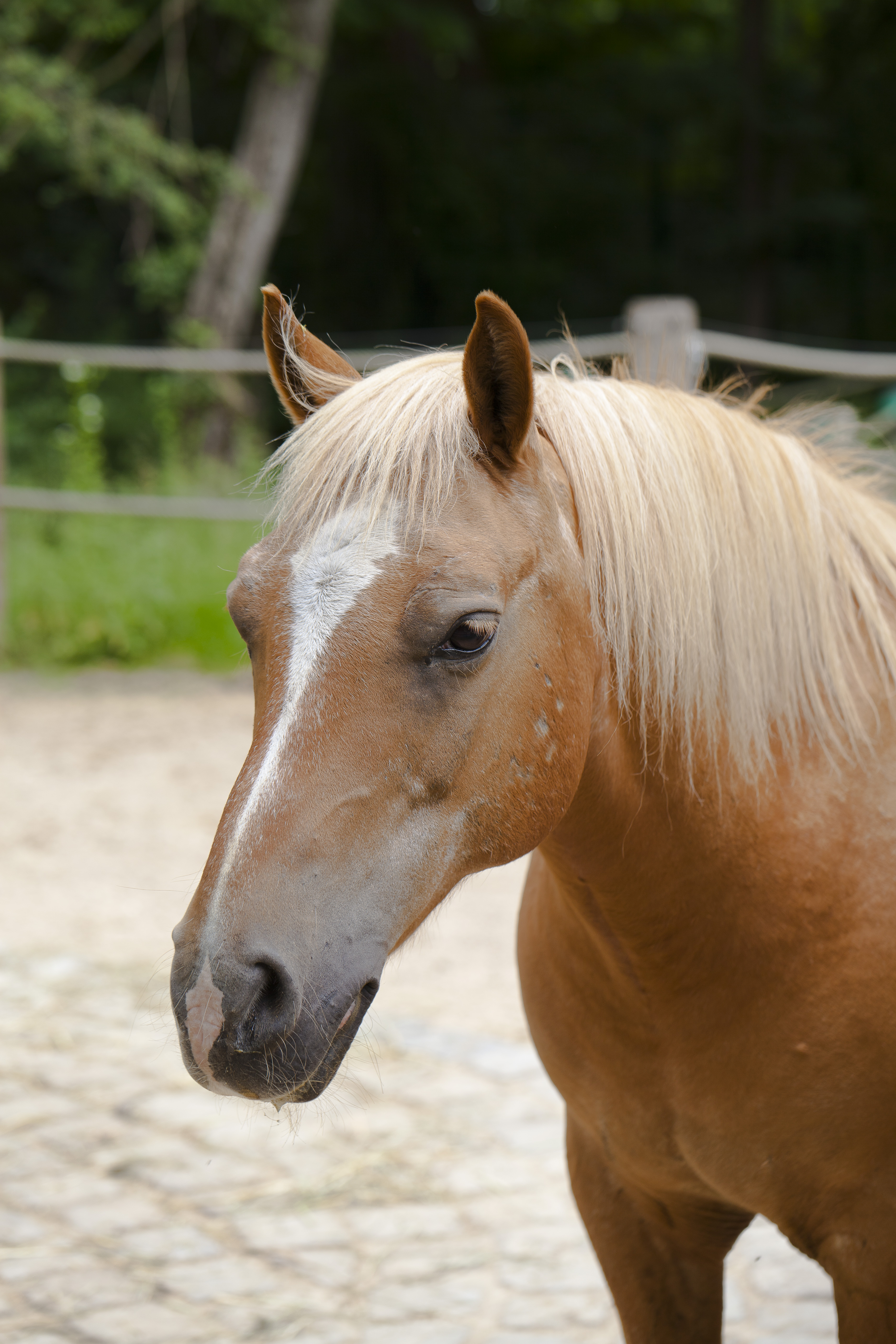 Haflinger horse, Tierpark Hellabrunn, Munich, Germany